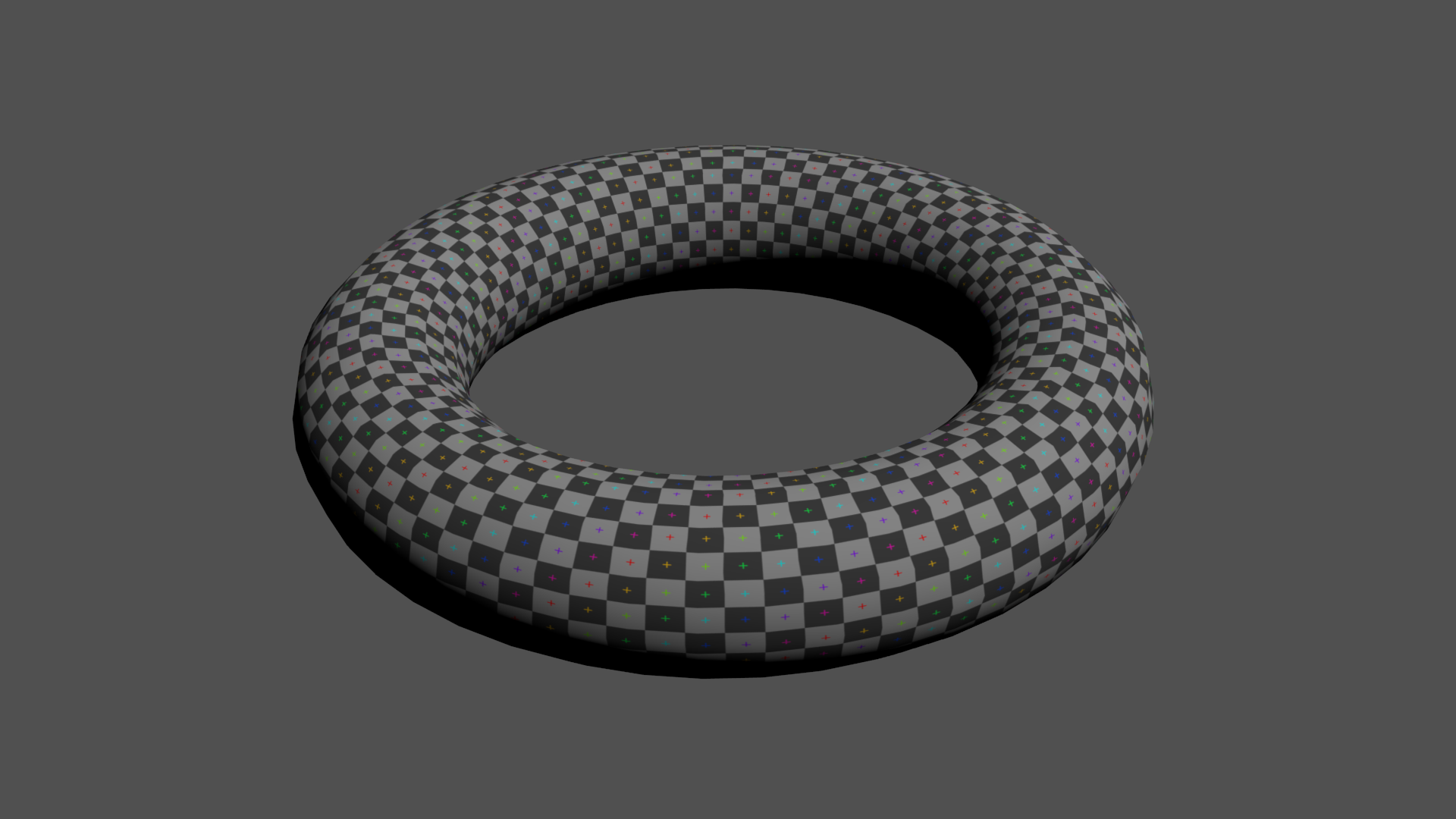 An image of a torus for use in the Wa-Tor article to show how the world is structured